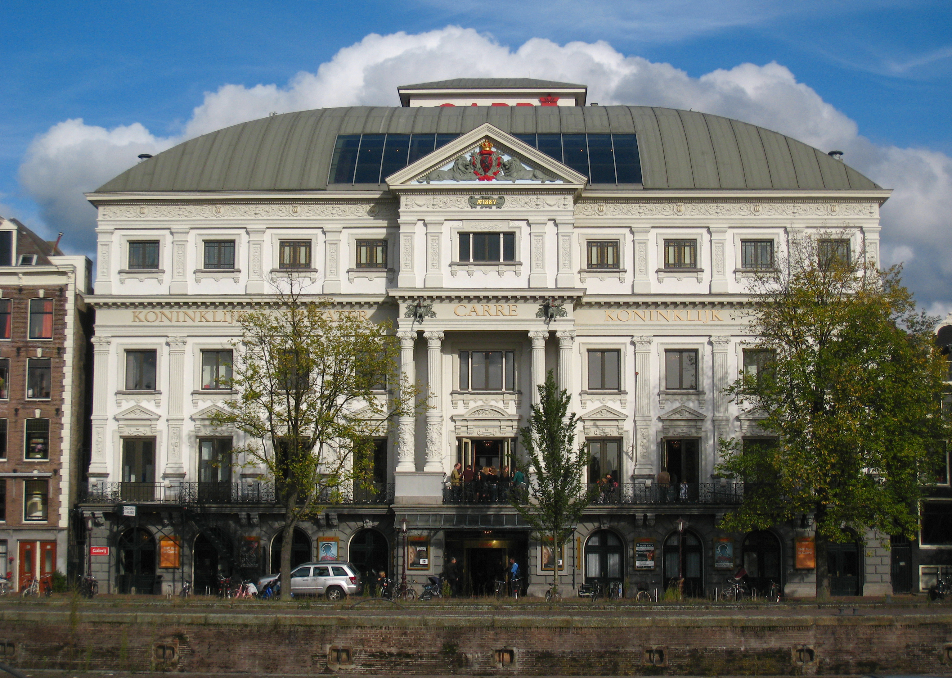 Koninklijk Theater Carré is a theatre in Amsterdam.